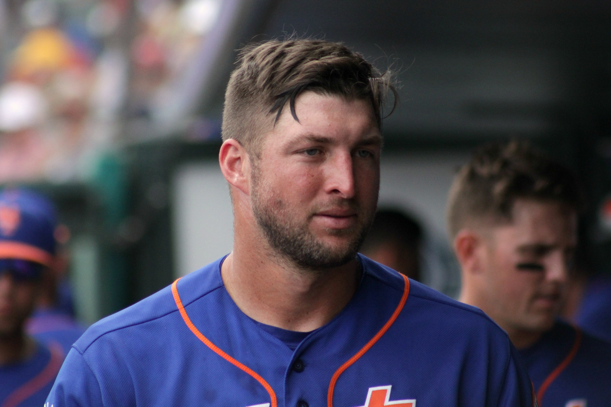 Tim Tebow in the dugout during the Mets v. Cardinals game, Spring training 2017.